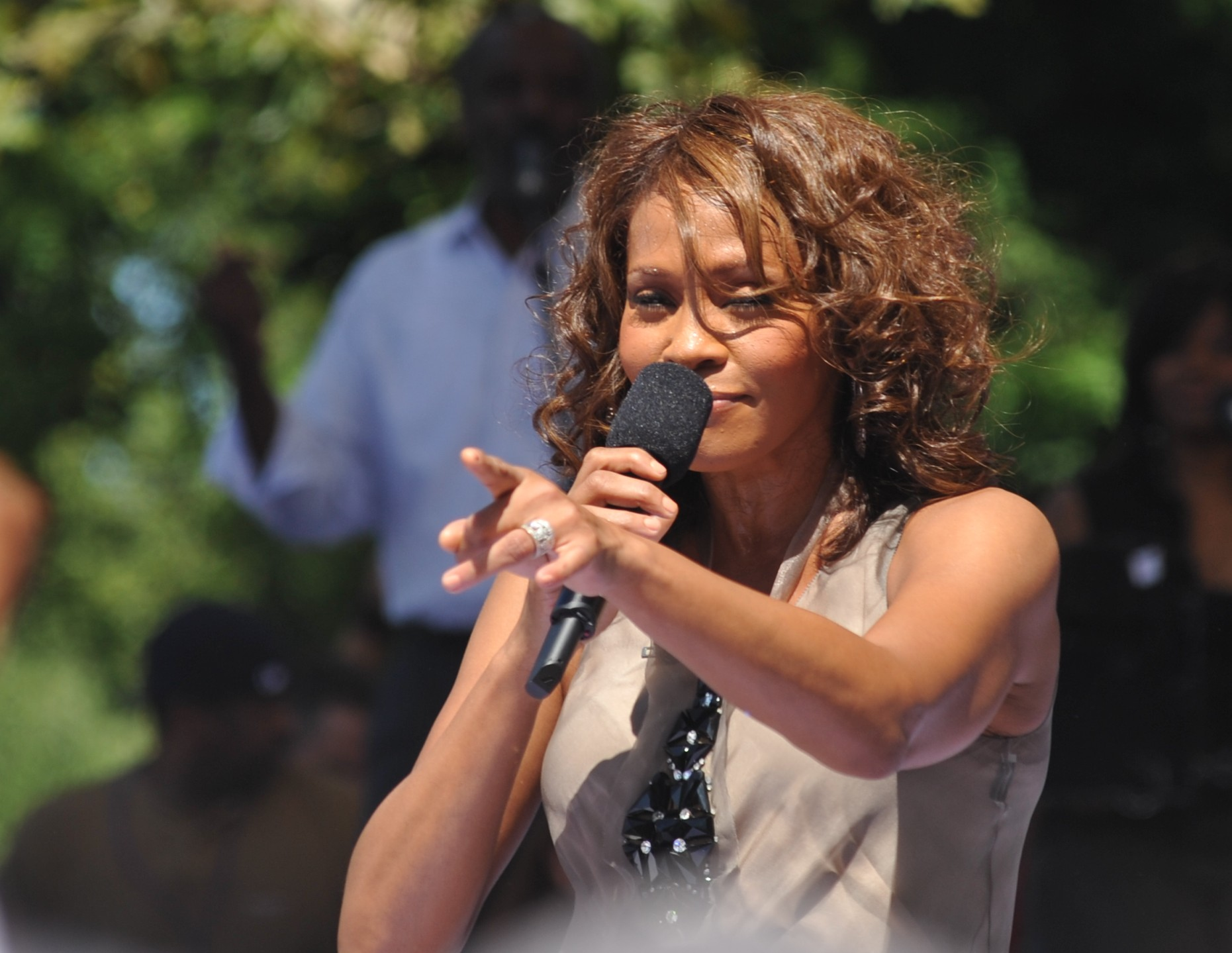 American singer Whitney Houston performing on Good Morning America (Central Park, New York City) on September 1, 2009.